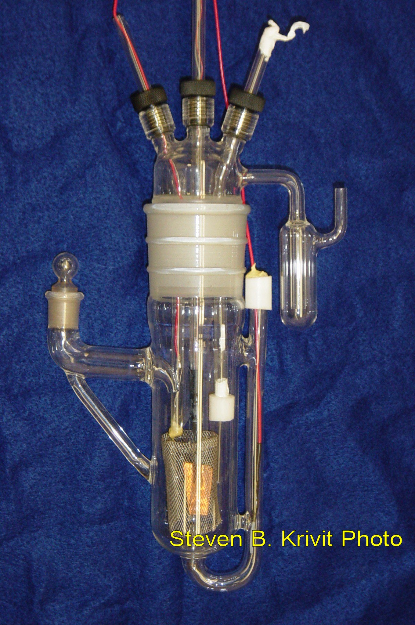 SPAWAR- First Generation Cold Fusion Cell. Photo Credit Steven B. Krivit